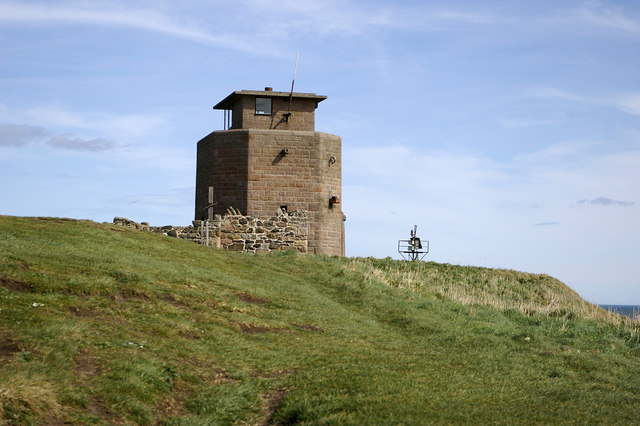 Former coastguard station and remains of Lantern Chapel, The Heugh, Holy Island The Coastguard Station on the Heugh is now used as an observation point by Natural England. In front is the remains of an earlier look out known as the Lantern Chapel